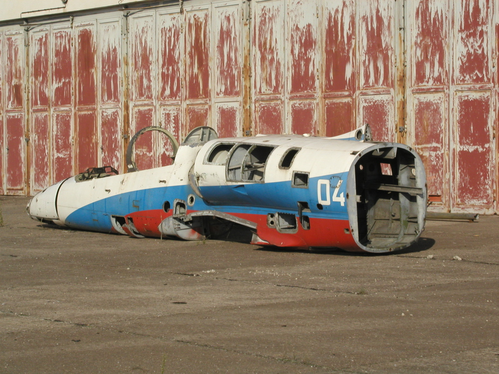 Dismantled Slovakian Aero L-39 Albatros at the Kosice Airport